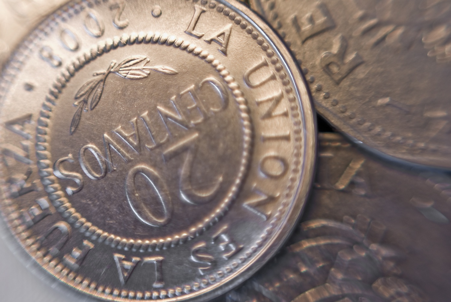 A macro photo of some Bolivian coins. 20 cents.